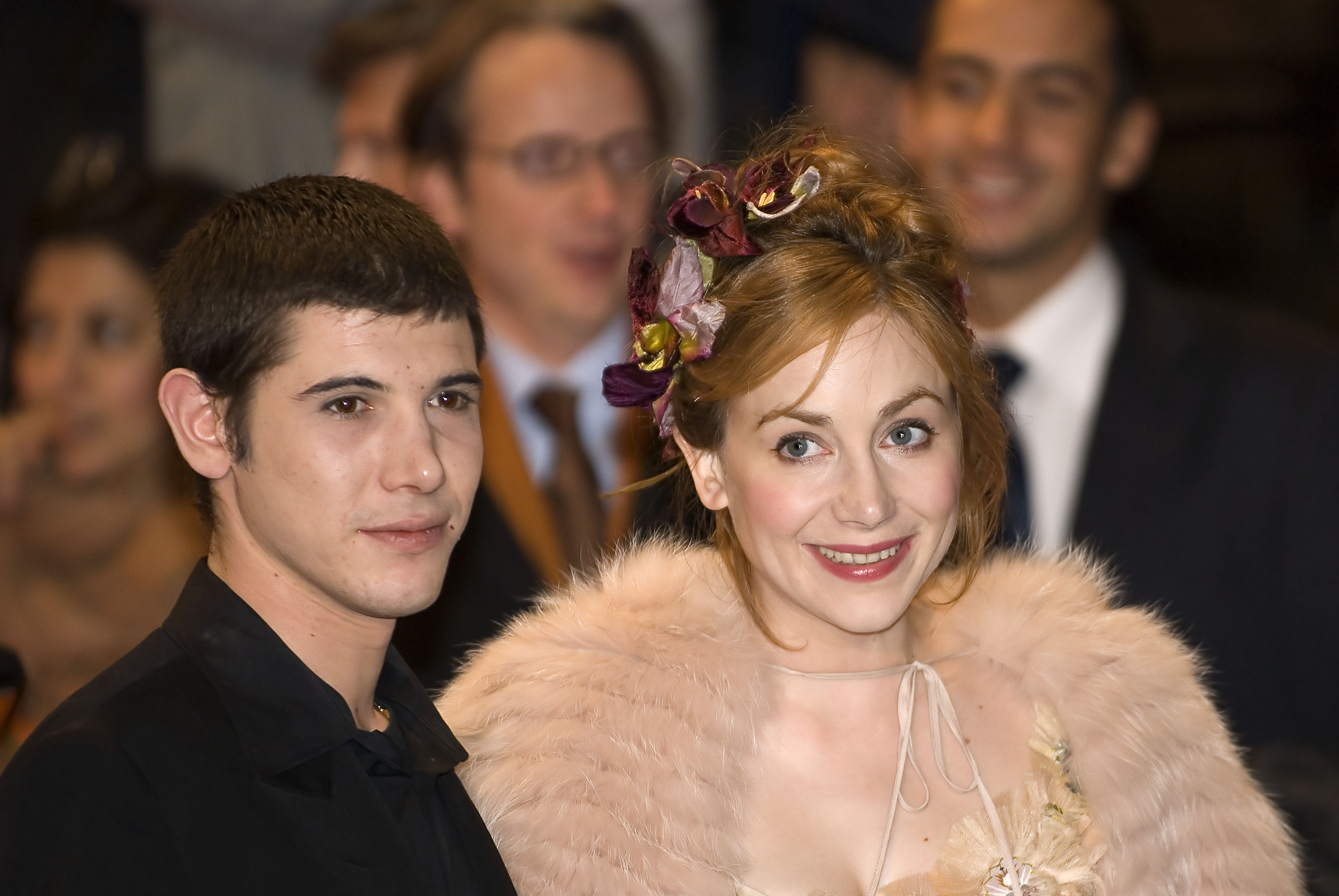 Johan Libéreau, Julie Depardieu, arrival for the premiere of "Les Témoins" ("The Witnesses", Die Zeugen"), Berlinale palace, Potsdamer Platz, Berlin